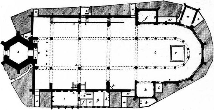 Grote Kerk, The Hague, before restoration.